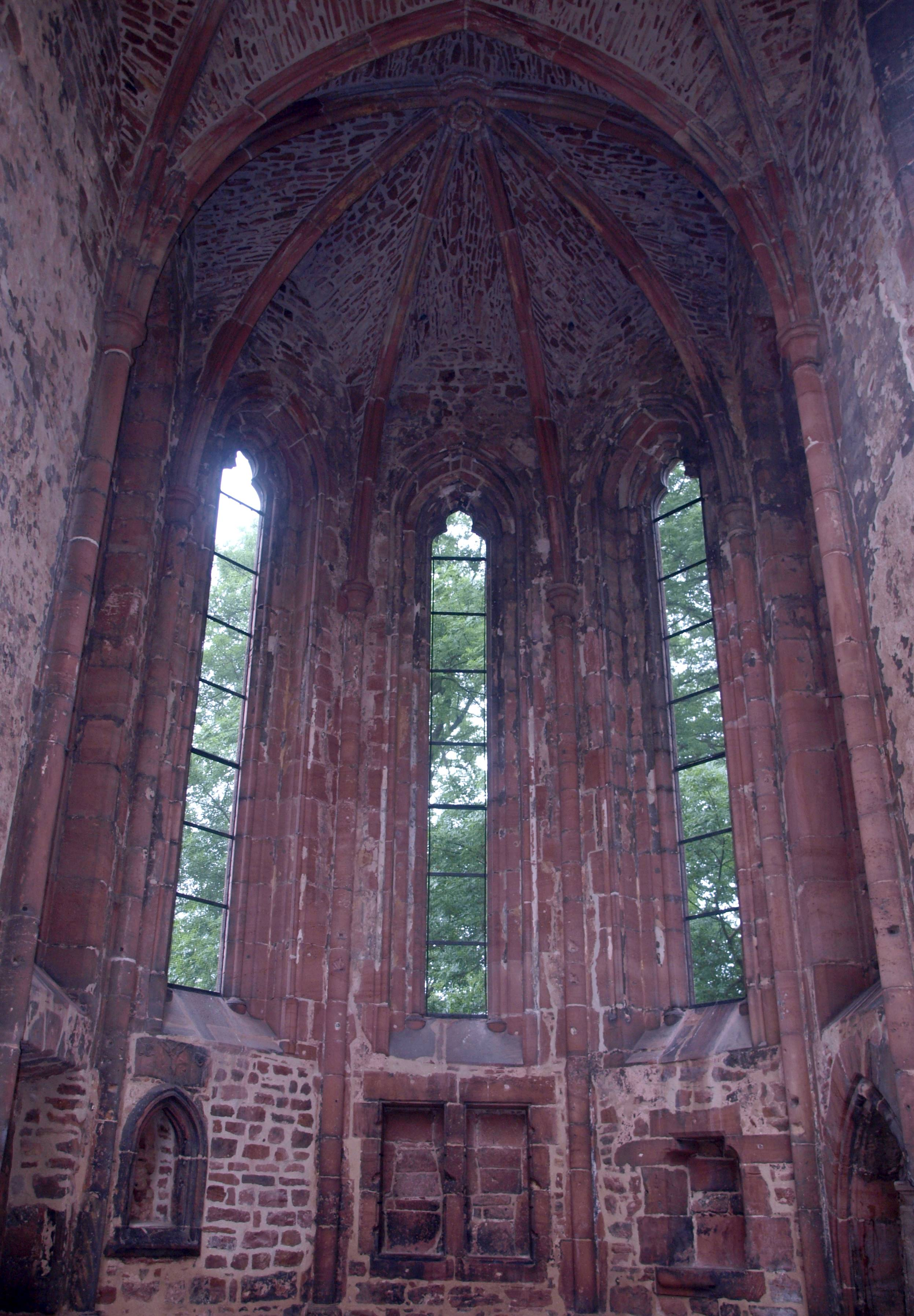 choir of the ruin church, called Totenkirche